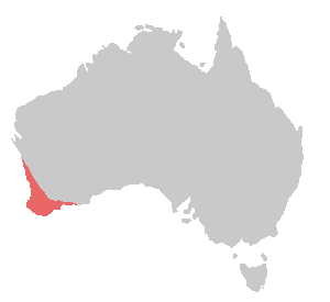 Distribution map of the Short-billed Black Cockatoo (Calyptorhynchus latirostris) which is endemic to only south-western Australia.